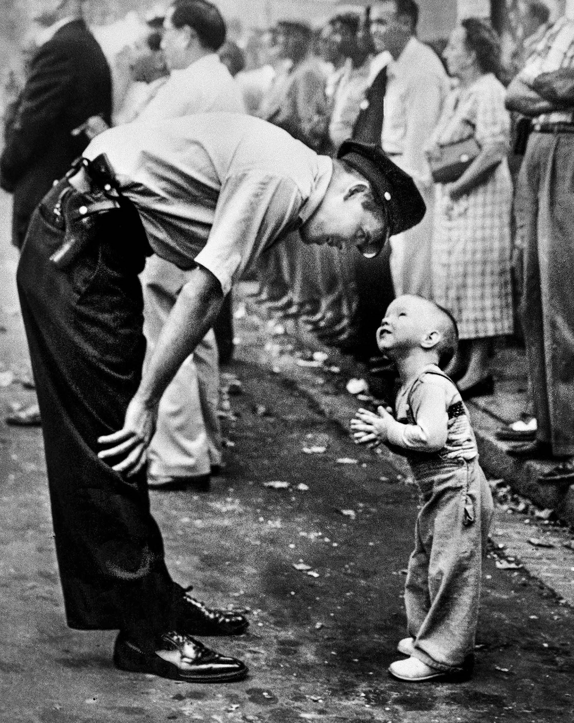 "Faith and Confidence", photograph of police officer Maurice Cullinane talking to 2-year-old Allan Weaver during a Chinese New Year parade in Chinatown in Washington, D.C. Winner of the 1958 Pulitzer Prize for Photography.